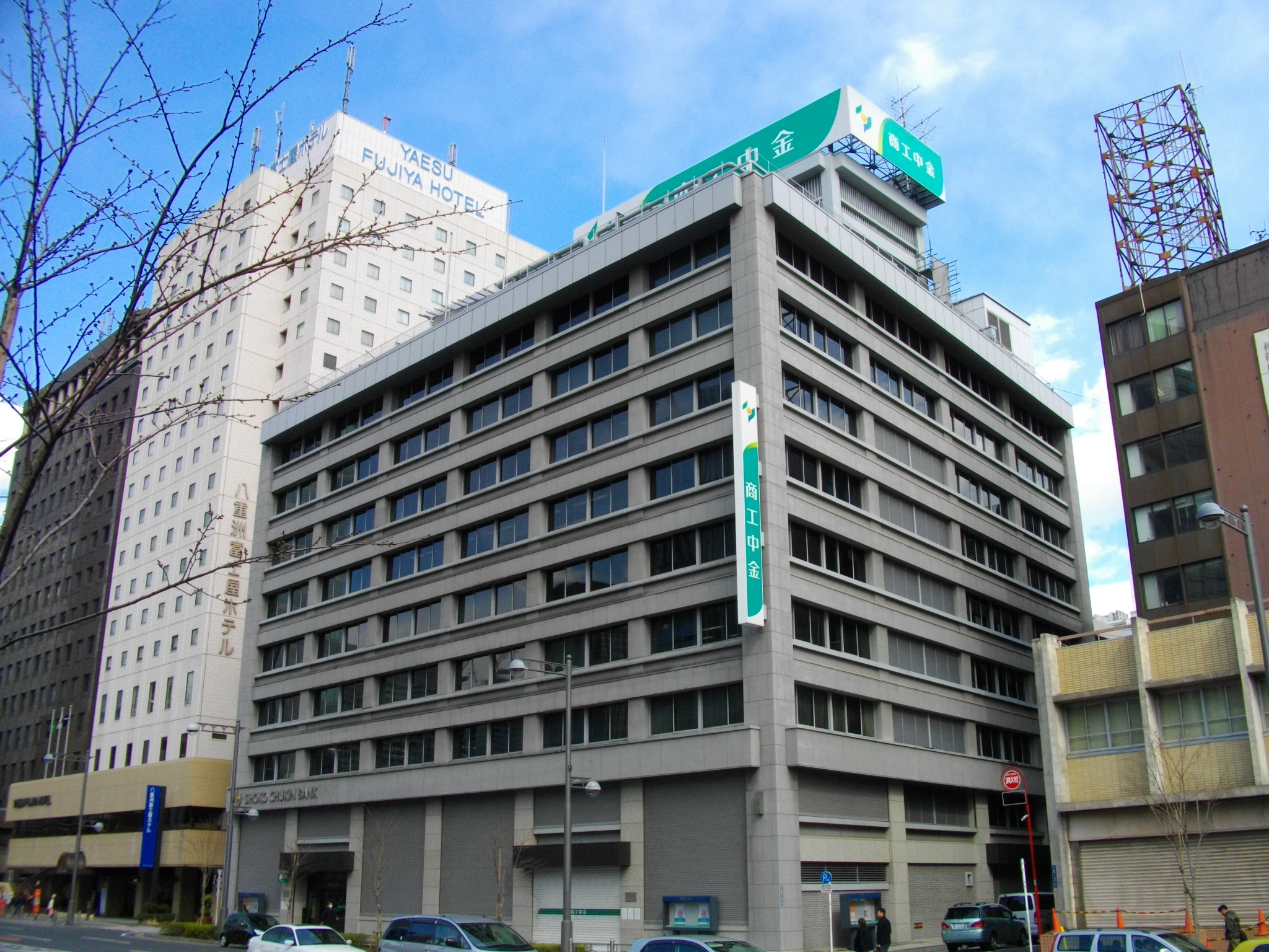 Shoko Chukin Bank Head Office